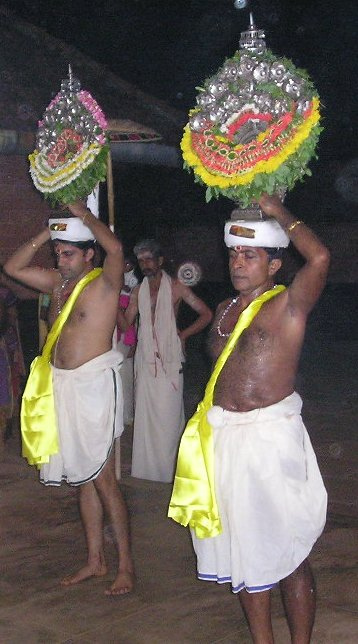 Thidambu Nritham (dance with the replica of the deity) is a ritual dance performed in Temples of North Malabar. This is one among many rich art traditions of North Malabar. It is mainly performed by Namboothiris, and rarely other Brahmin communities